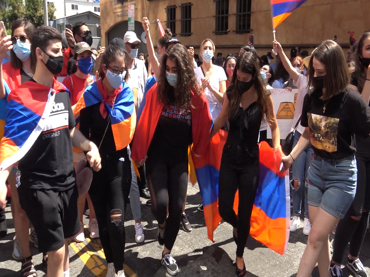 Peaceful protest of the Armenian community in Los Angeles